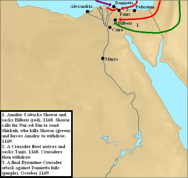 4th crusader invasion of egypt